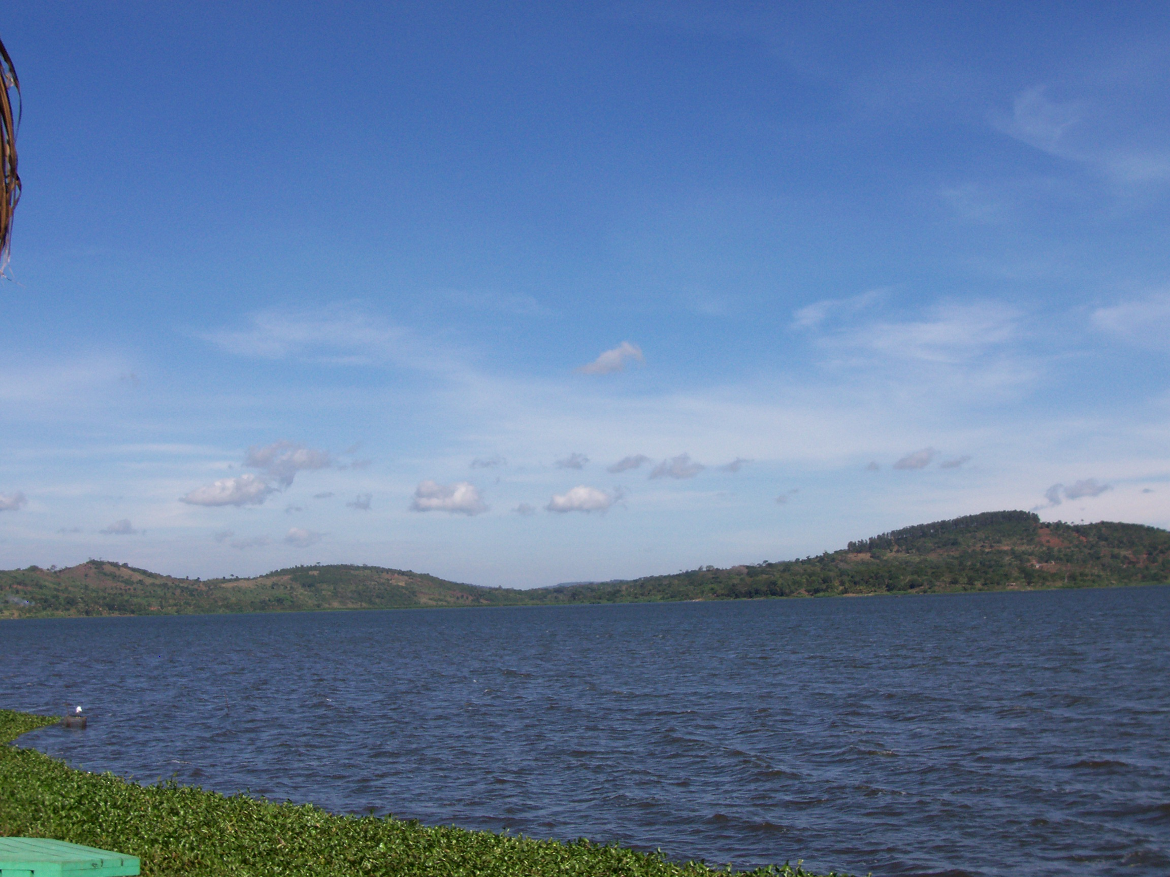 This is a picture of Lake Victoria as it appears from the shores of the Speke Resort in Munyonyo, Kampala, Uganda. It was taken by Michael Shade in the fall of 2006. Use it for whatever.